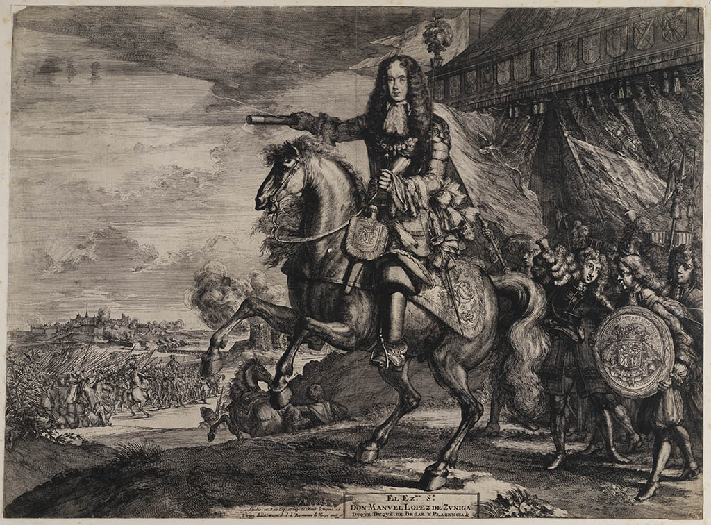 Retrato de don Manuel López de Zúñiga, duque de Bejar, grabado de Romayn de Hooghe sobre dibujo del capitán ingeniero Juan de Ledesma, hacia 1682. Con algunos retoques la misma plancha se transformó años después en retrato de Guillermo III de Orange Rijksmuseum y más tarde del archiduque Carlos (Carlos III de España): [1]